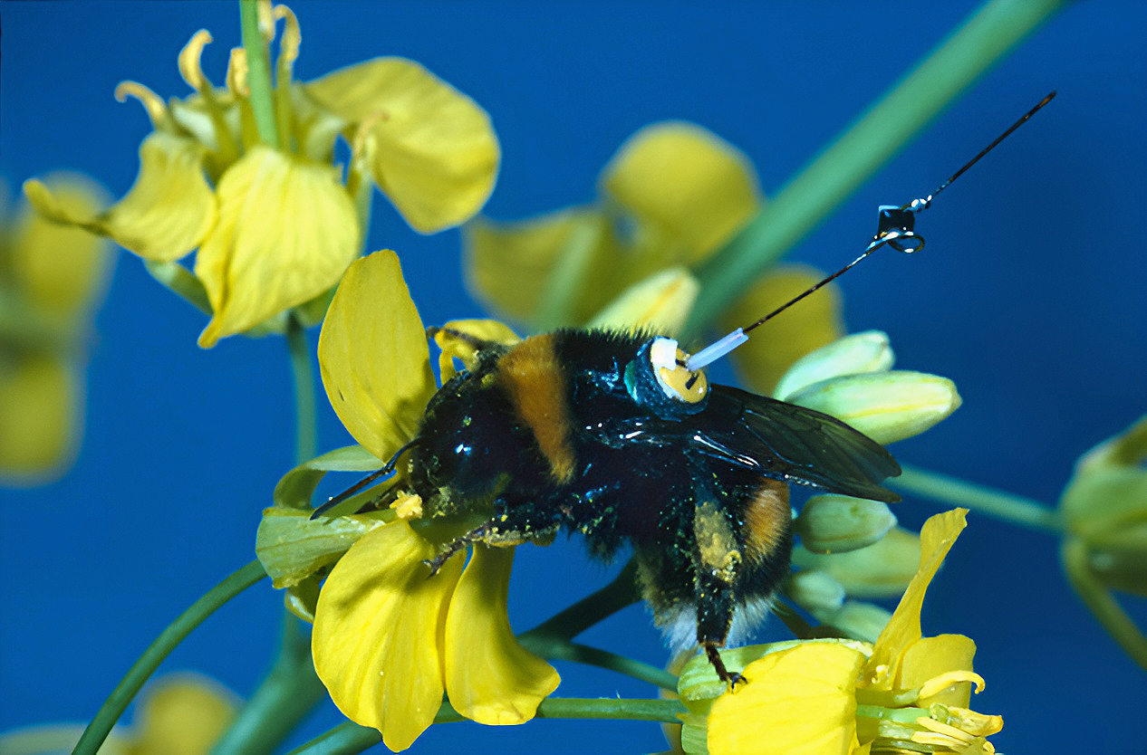 A bumblebee (Bombus terrestris) worker with a transponder attached to its back, visiting an oilseed rape flower. (Tracking bees with radar shows how they find an optimal route between multiple flowers.) Image credit: Andrew Martin.